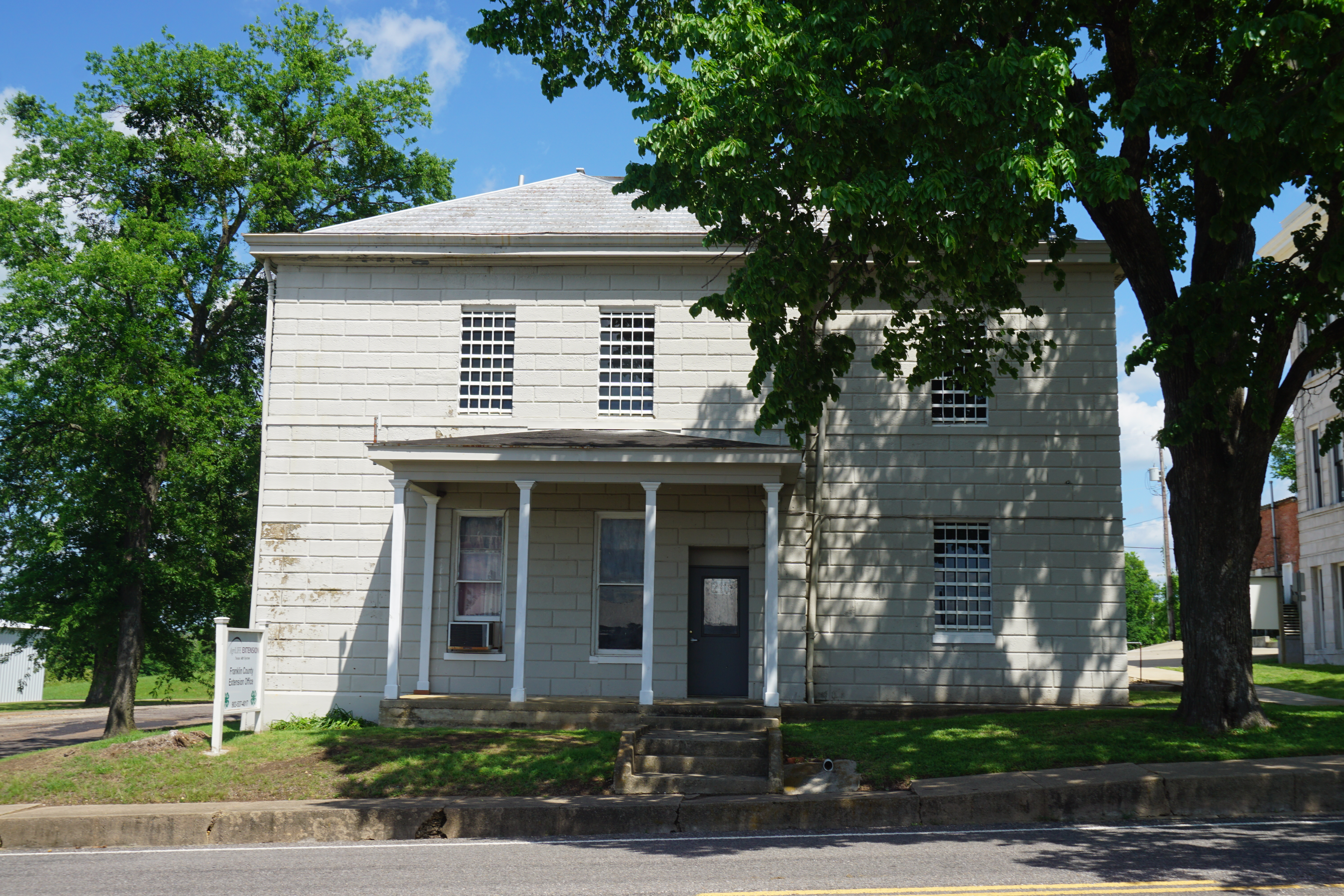 The Old Jail Art Museum in Mount Vernon, Texas (United States).